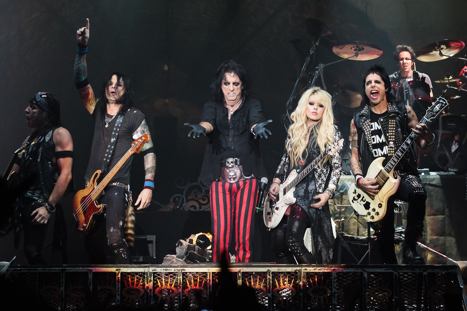 Alice Cooper band performing live during Halloween Night of Horror at Wembley Arena, London, England on 28 October 2012